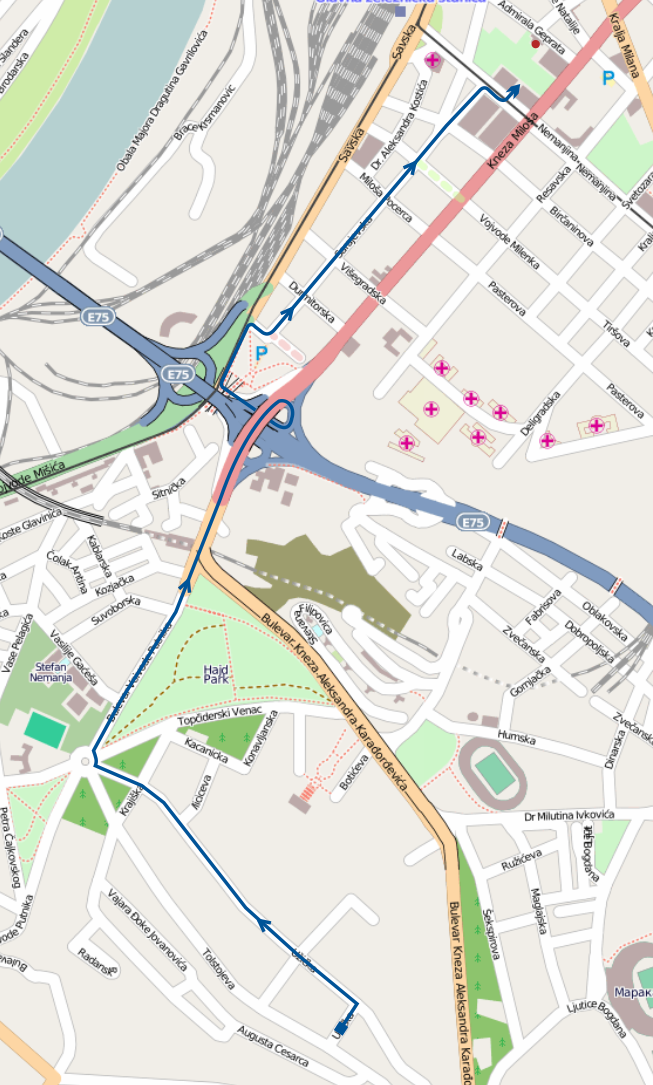 Route of Prime Minister's motorcade, from PM's residence to the building of Serbian Government, just before the assassination of Zoran Đinđić. Red spot marks the position of the assassins hidden in Institute for Photogrammetry.